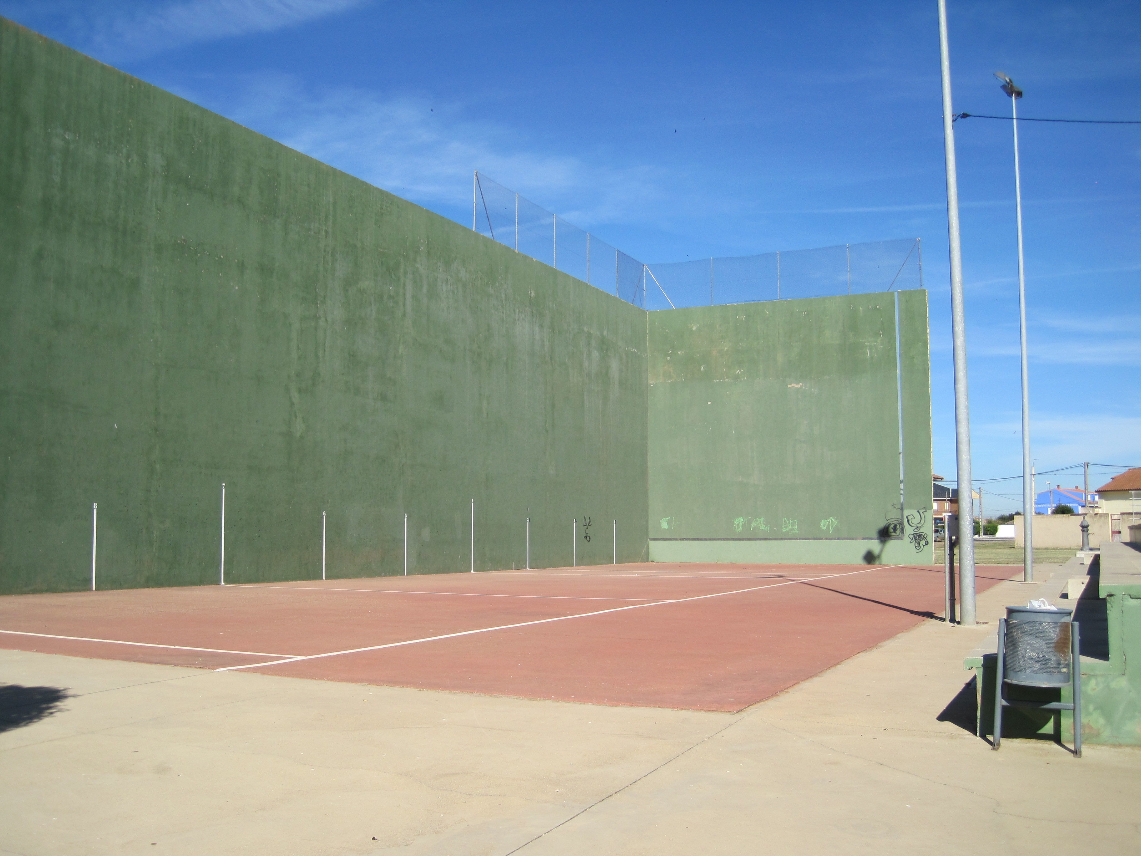 Imagen tomada en Bercianos del Páramo (León).